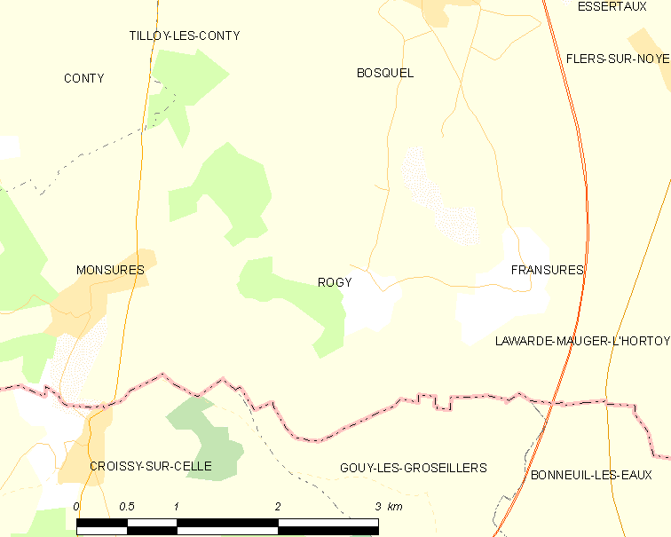 Map of French municipality Rogy